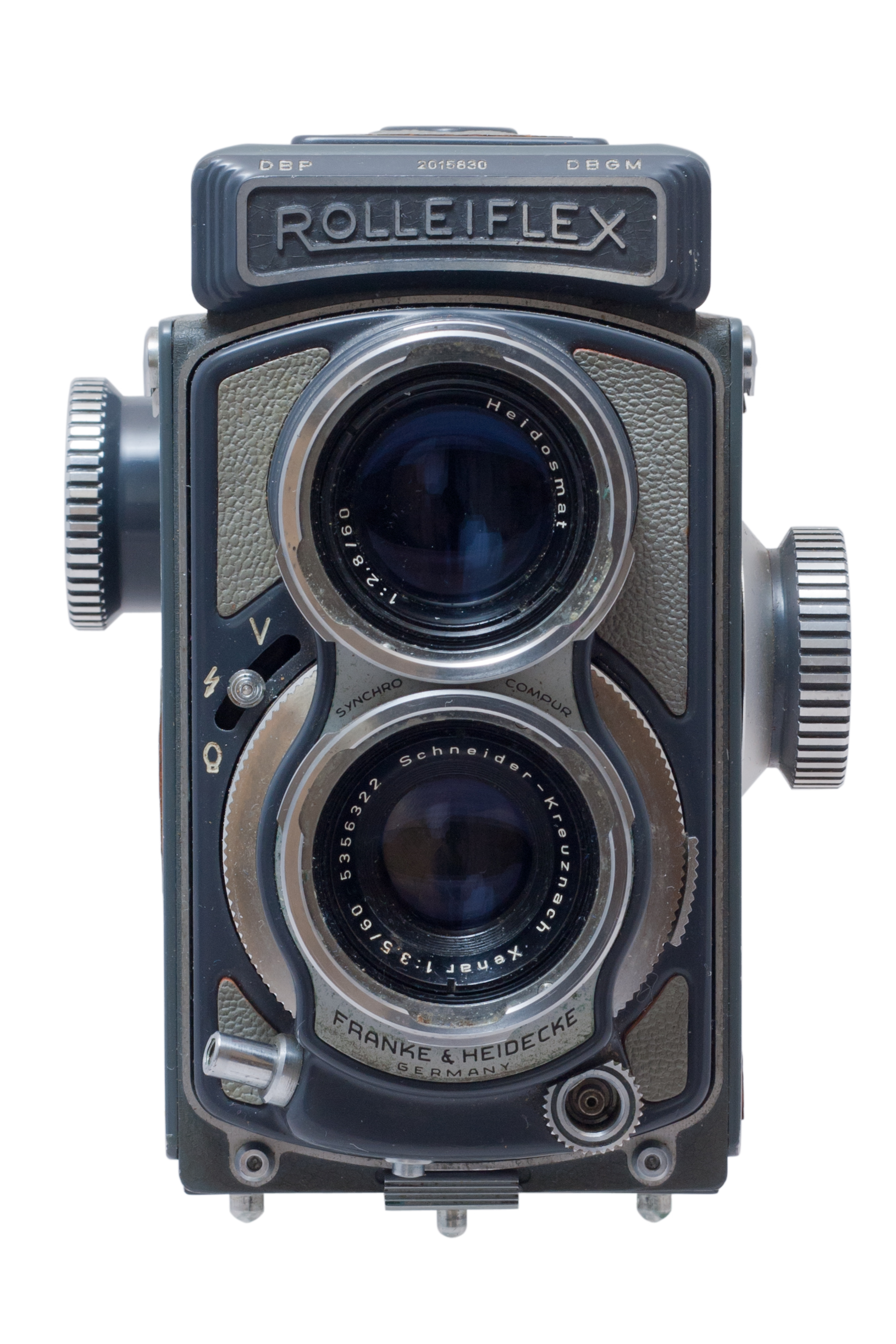 A Rolleiflex Baby 4x4 TLR camera.